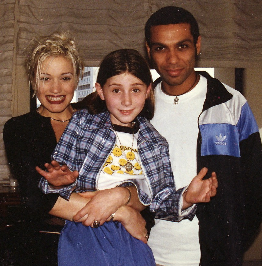 In San Francisco, photographer and director Bobby Sheehan took this photo of American singer Gwen Stefani (left), with musician Tony Kanal of the group No Doubt (right), with eight-year old Quinn Marston (center). Quinn Marston idolized Stefani and got a chance to meet the star; in 2012, Marston is a singer-songwriter in her own right, and has sold several songs to television shows such as One Tree Hill.